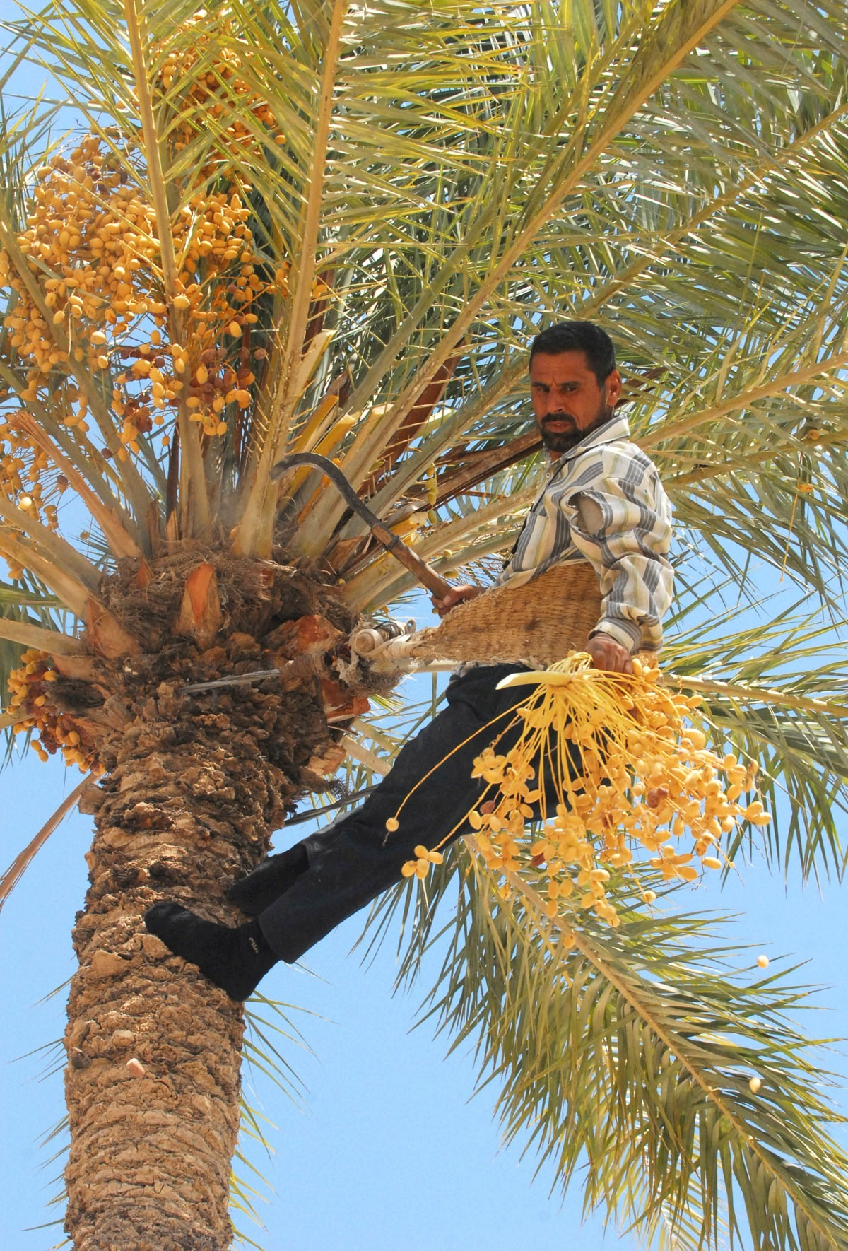 An Iraqi man harvests sugar dates, to be distributed to local orphanages, in Anbar province, at Camp Ramadi, Iraq, September 14th, 2010.